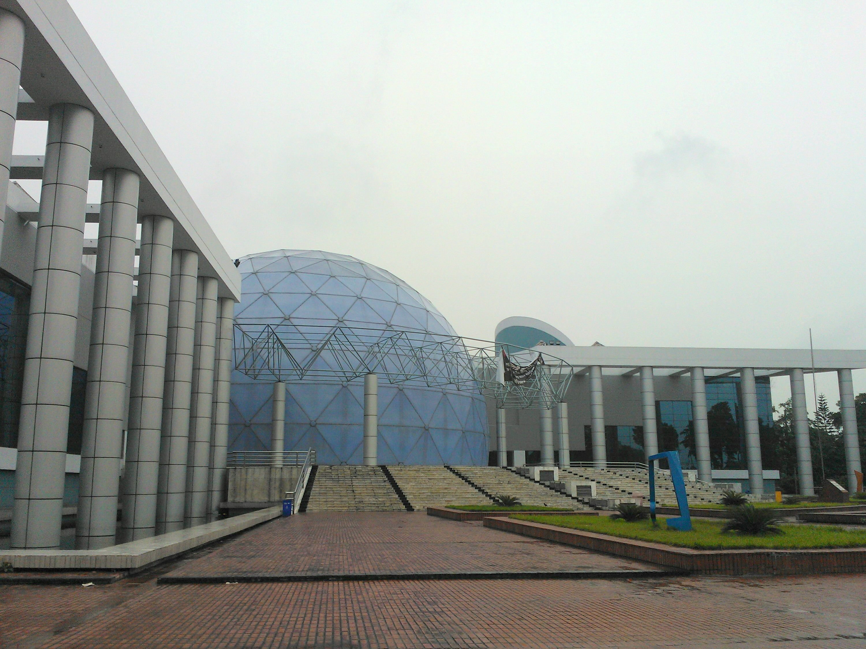 Bangabandhu Sheikh Mujibur Rahman Novo Theatre, Dhaka.